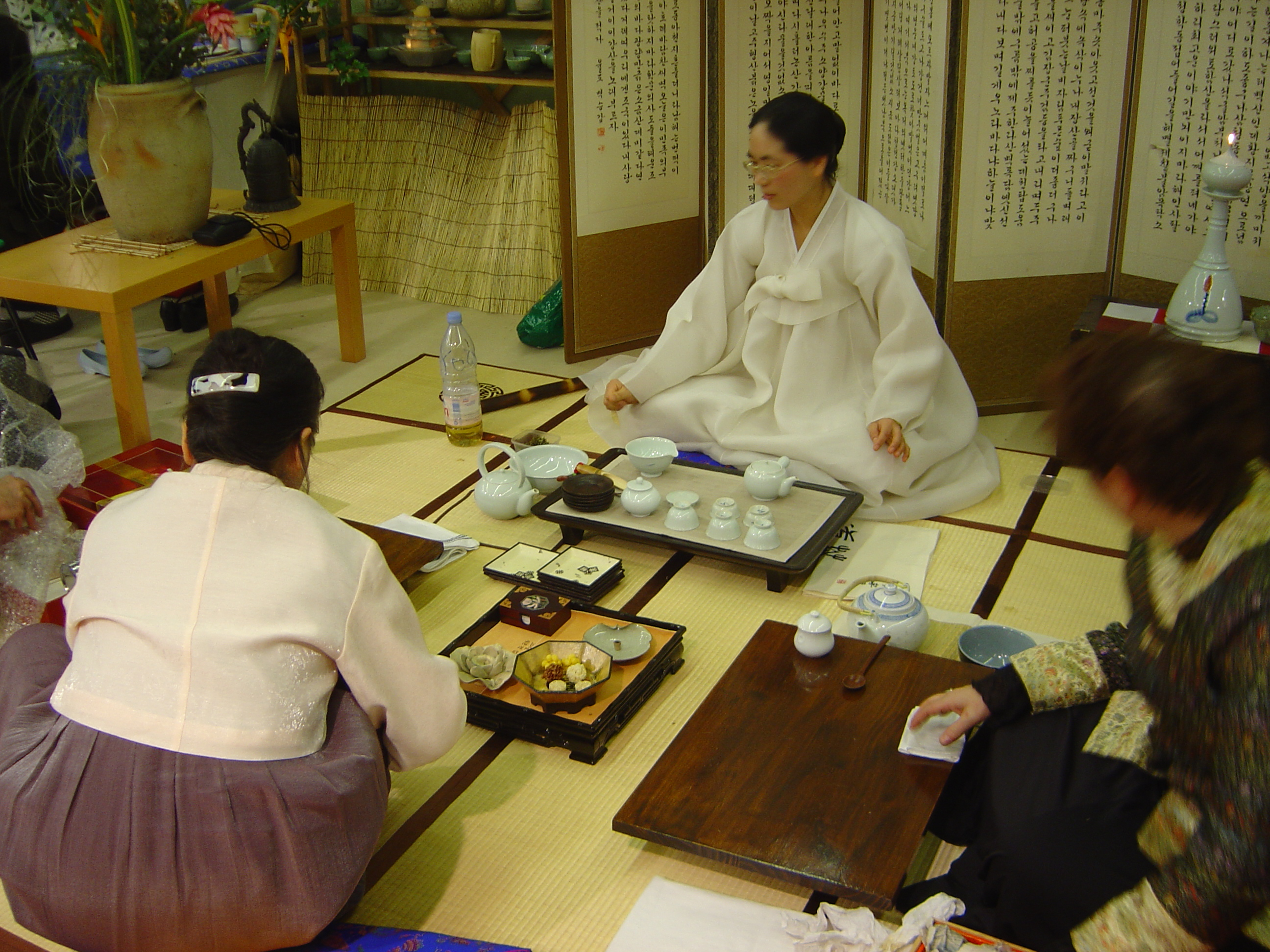 Korean tea ceremony, photo was taken at the Salon de l'agriculture (Salon of agriculture) in Paris, France.